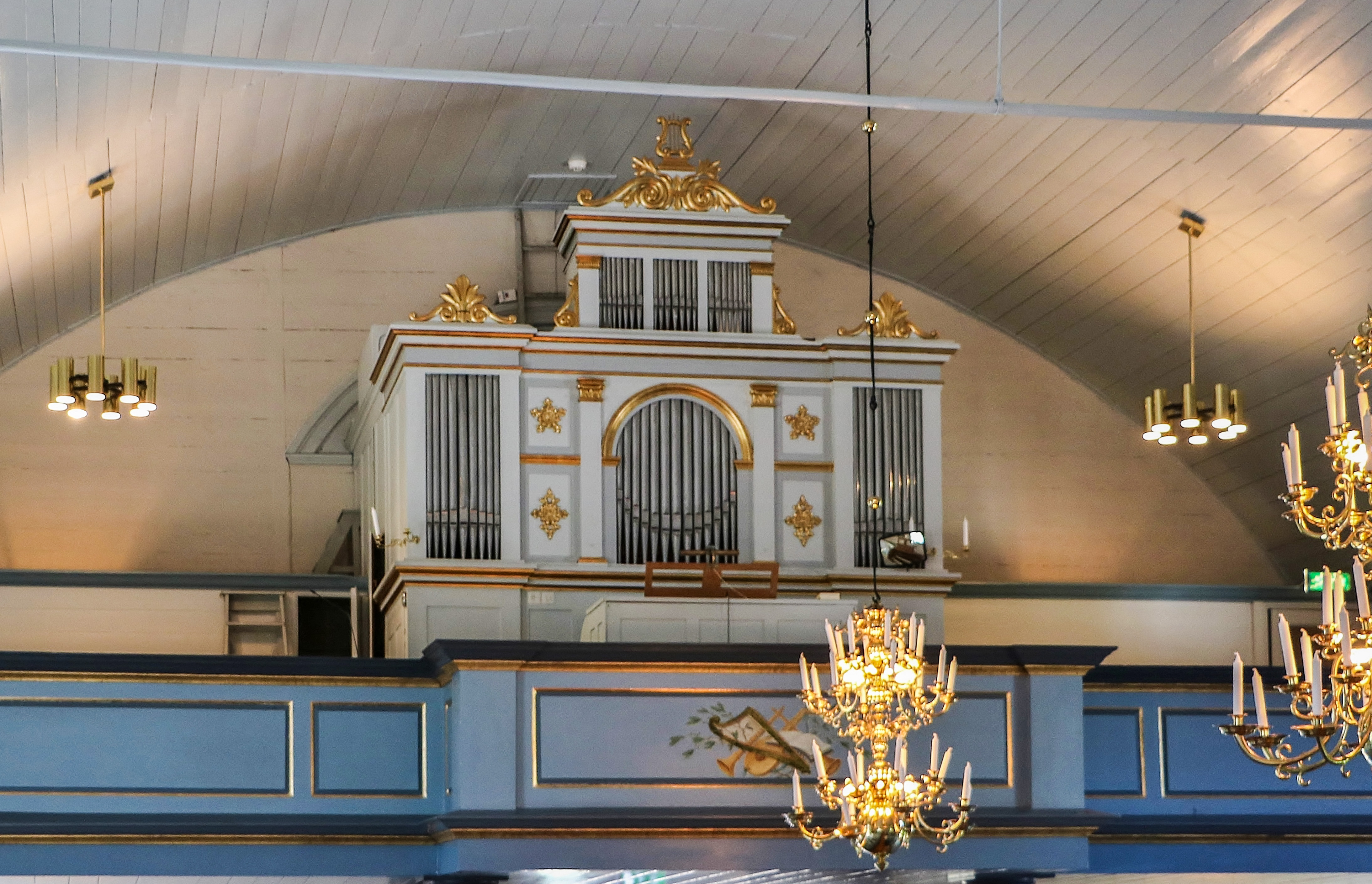 Eringsboda Church.The organ